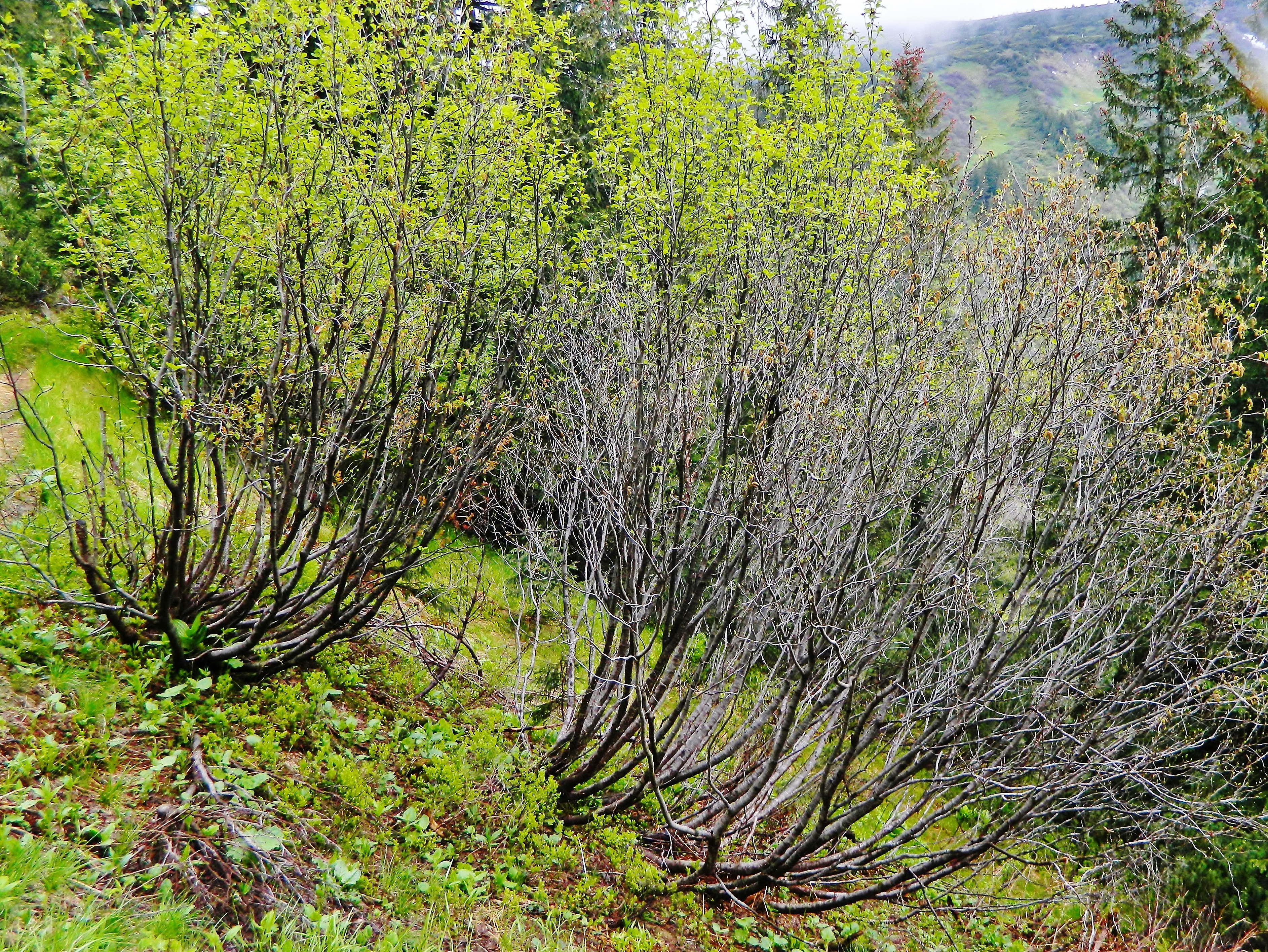 Growth of Alnus viridis on Pozhyzhevska, Chornohora range, Ukrainian Carpathians